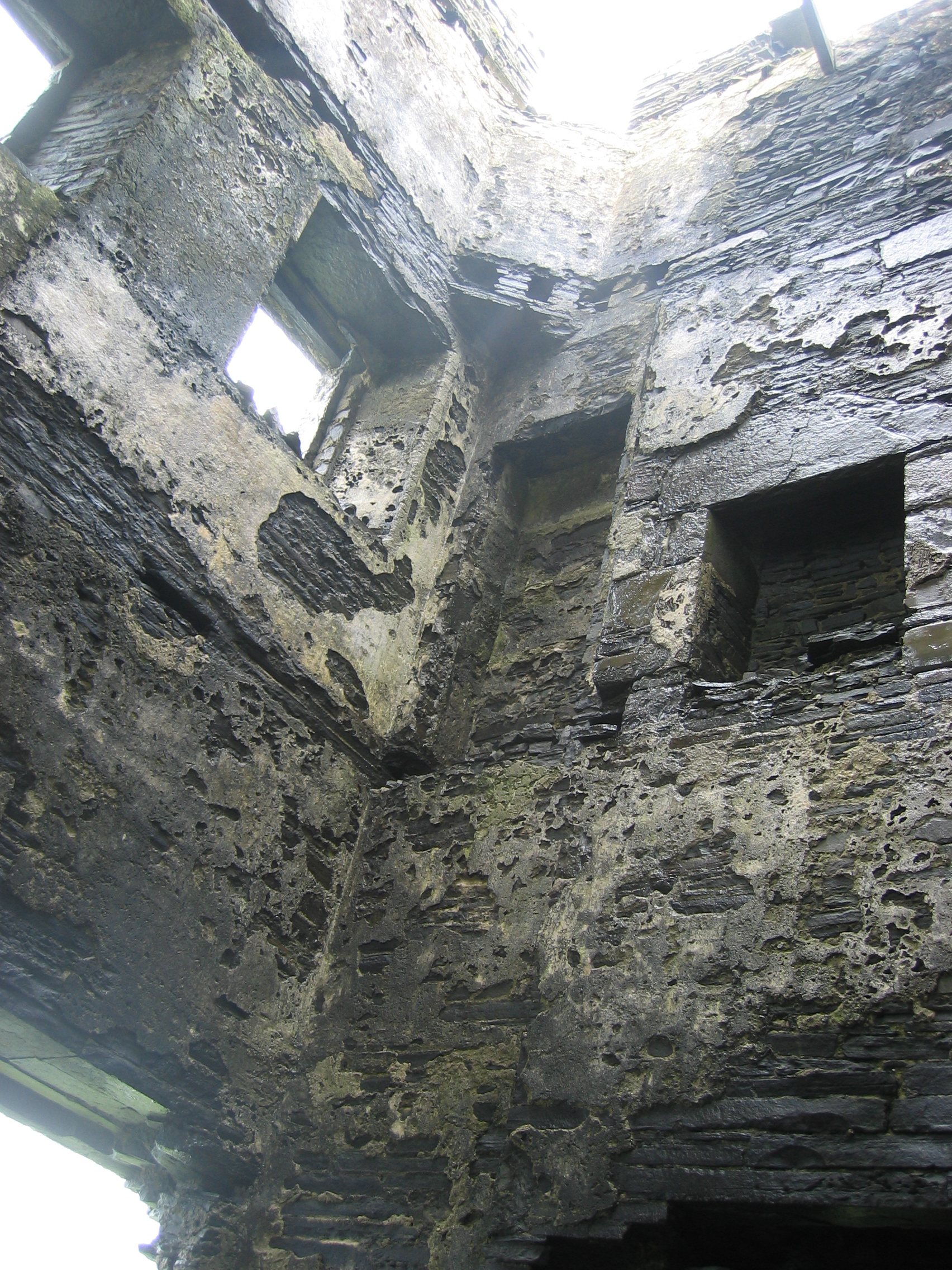 Inside Moher Tower, a stone ruin of an old watchtower which stands on Hag's Head, at the southern end of the Cliffs of Moher